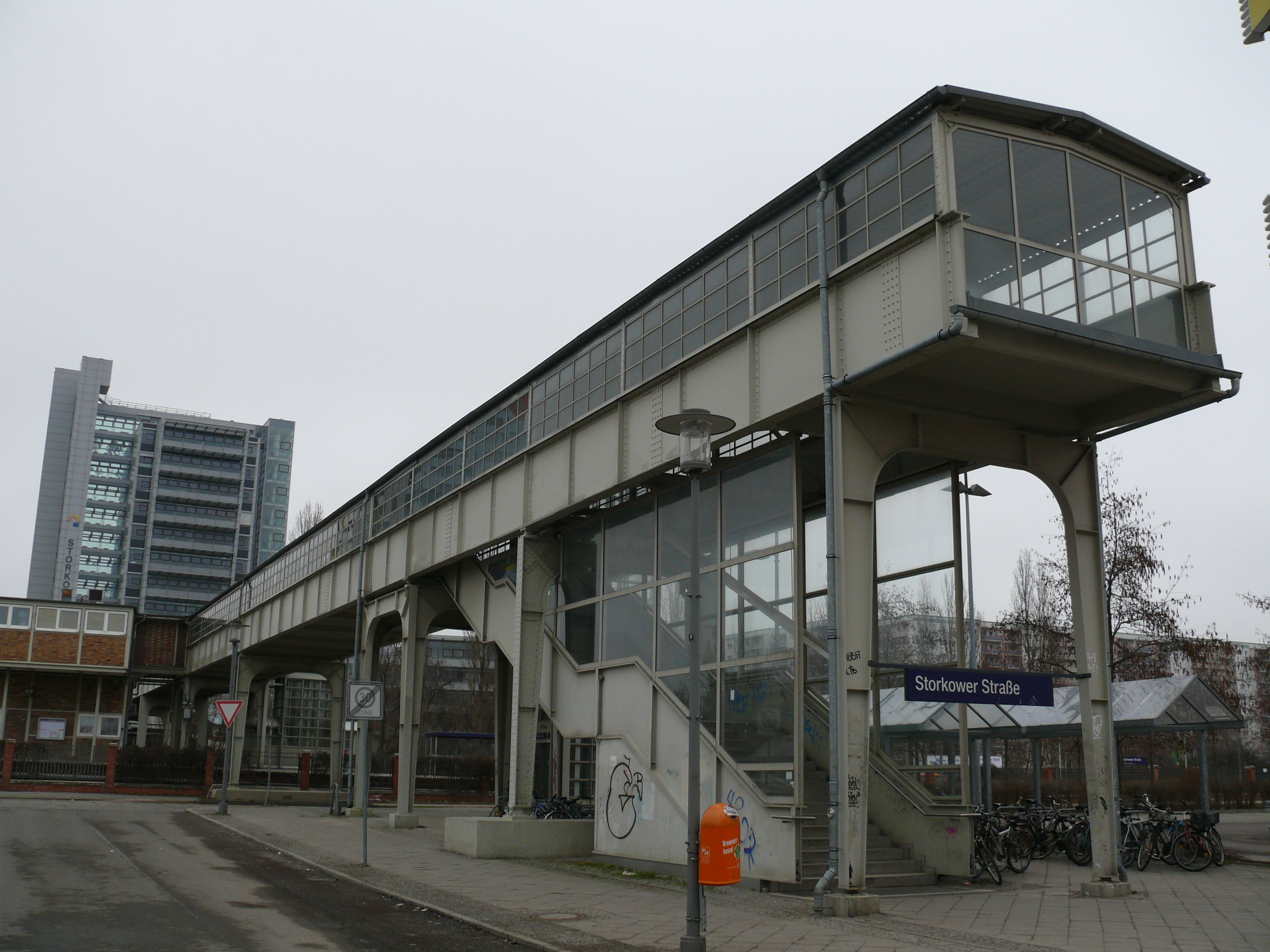 Pedestrian bridge "Langer Jammer" in Perlin-Prenzlauer Berg